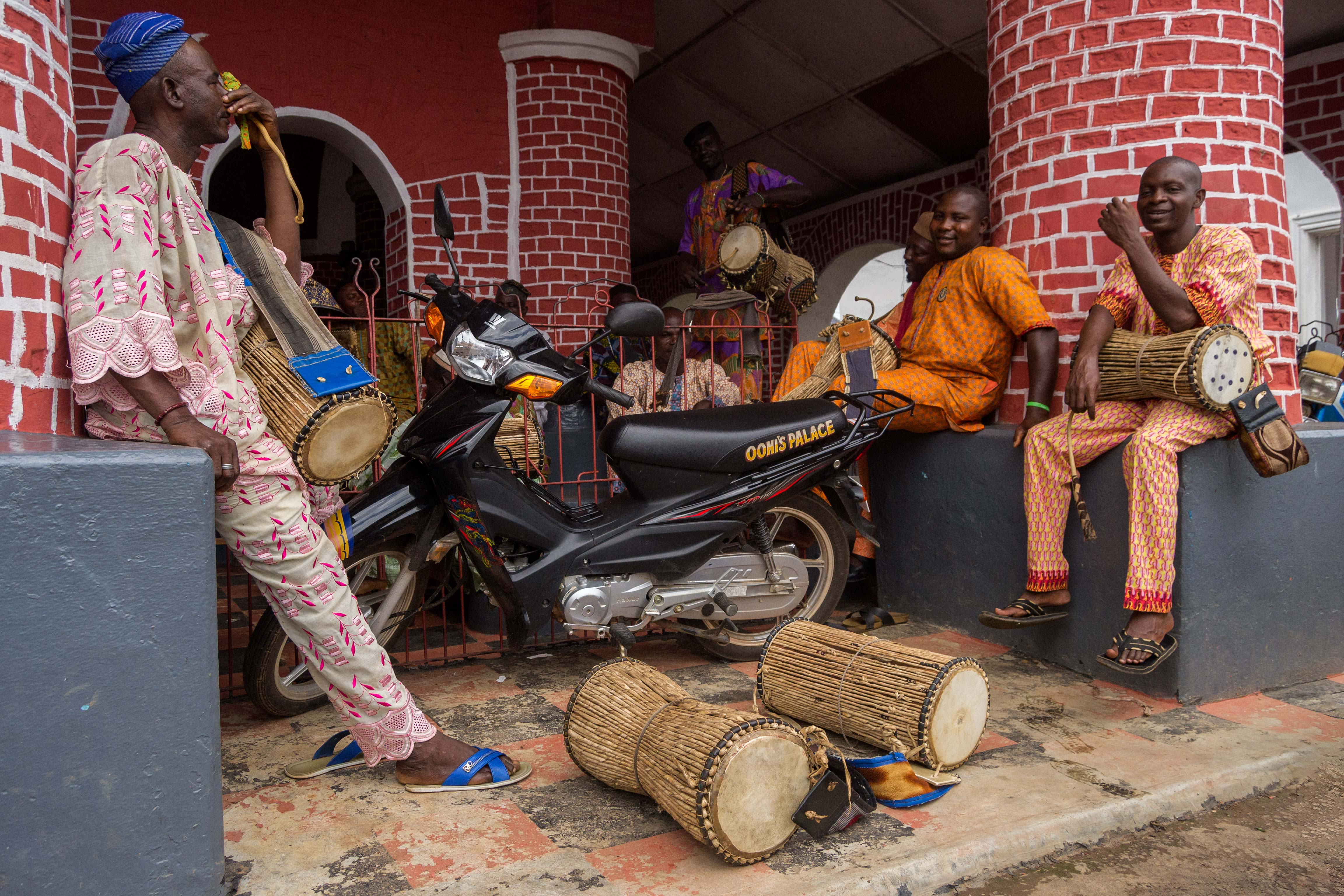 Drummers in a moment of rest in front of the general hall at the palace of the Ooni of Ife, Ile-Ife. This is an image from Nigeria